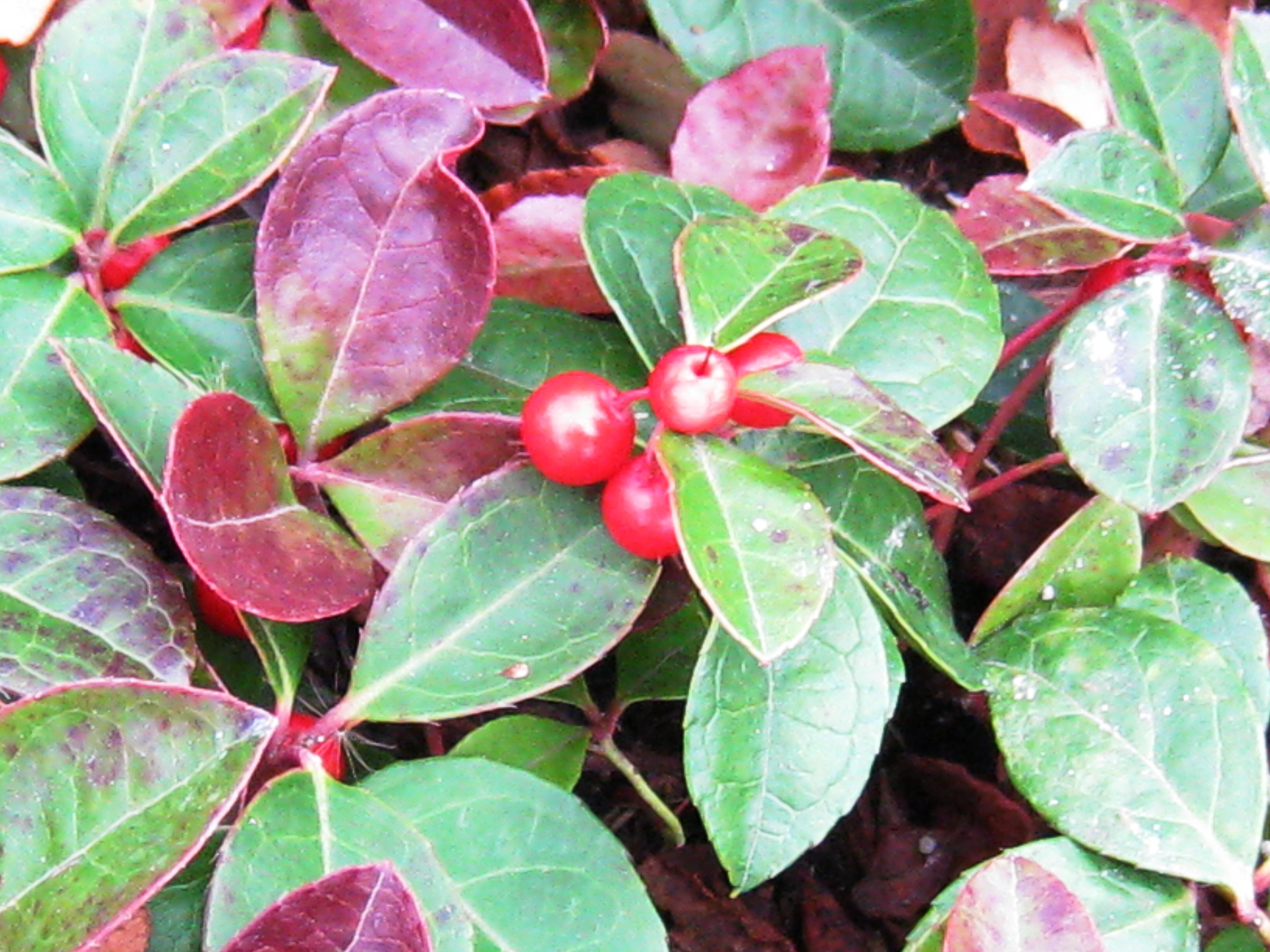 Specimen in cultivation at the Botanical Garden, University of Copenhagen, Denmark.